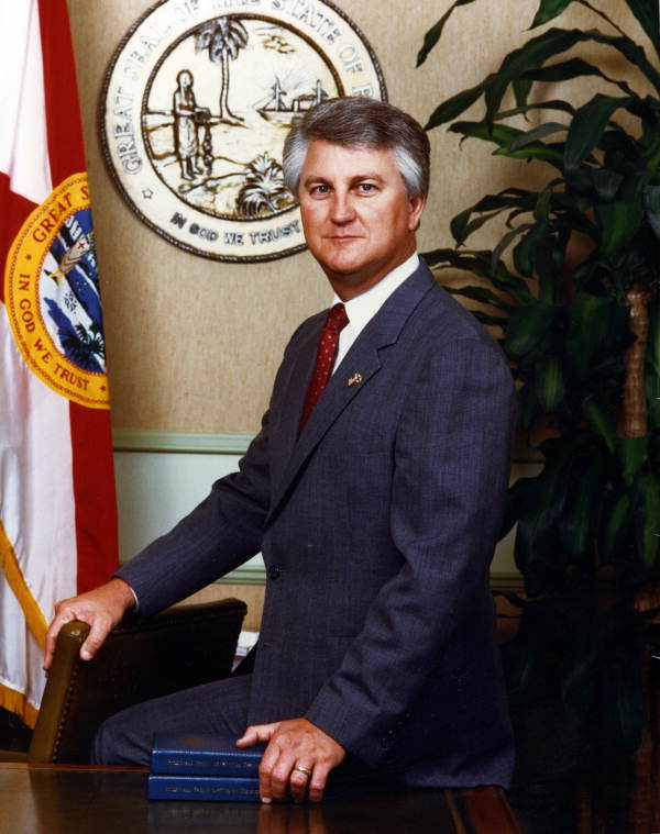 Portrait of Lieutenant Governor Bobby Brantley of Florida